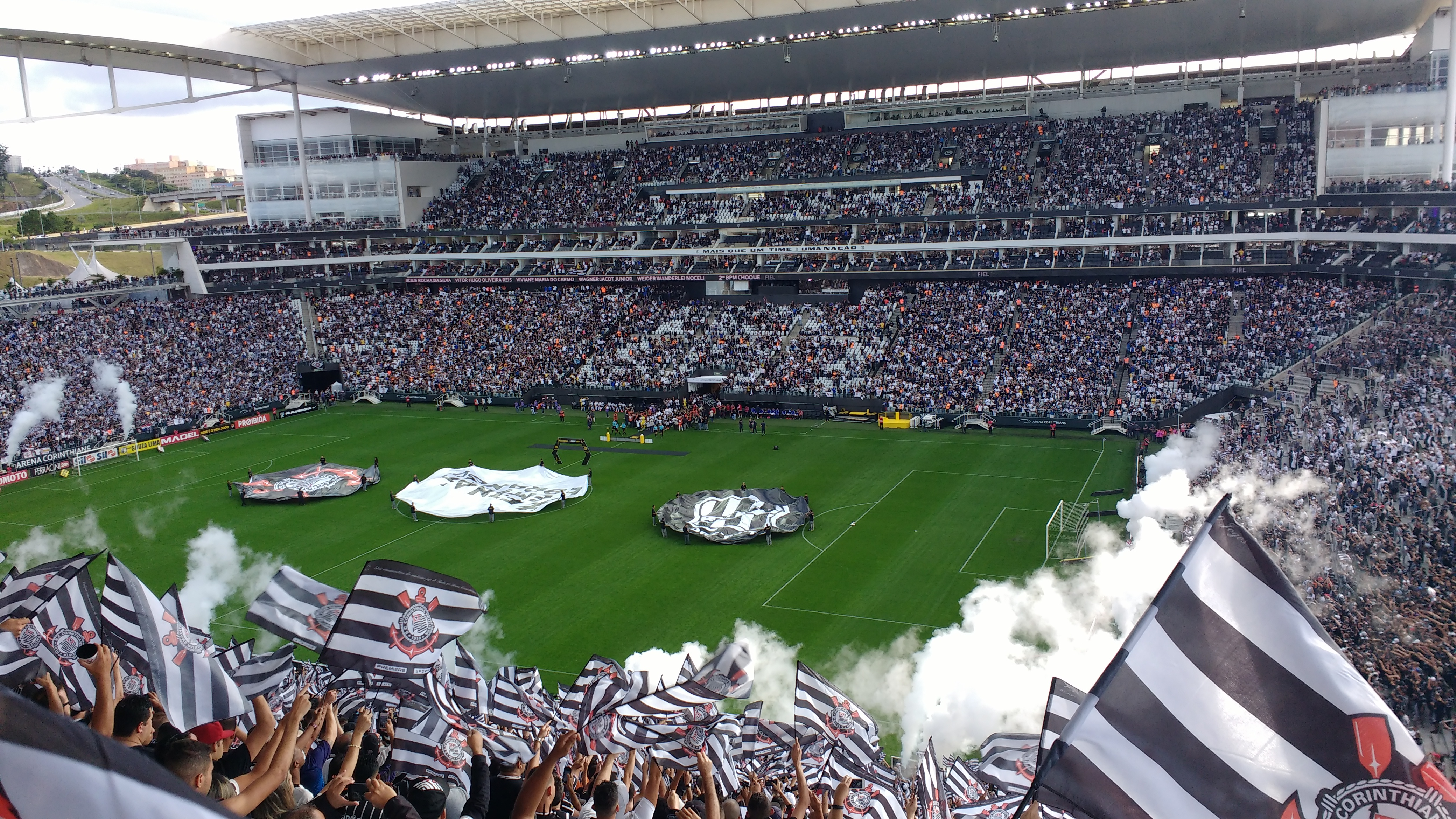 Final of Paulistão 2017_Arena Corinthians